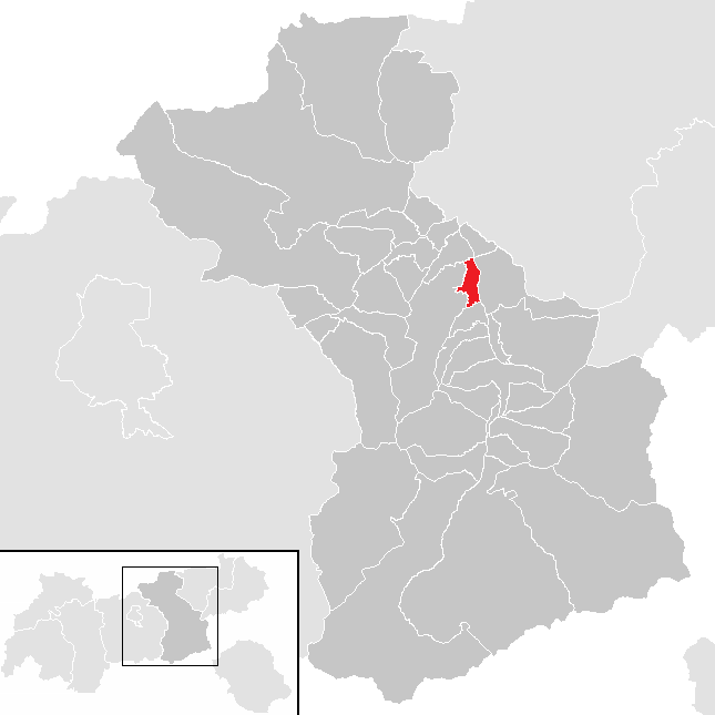 District Schwaz